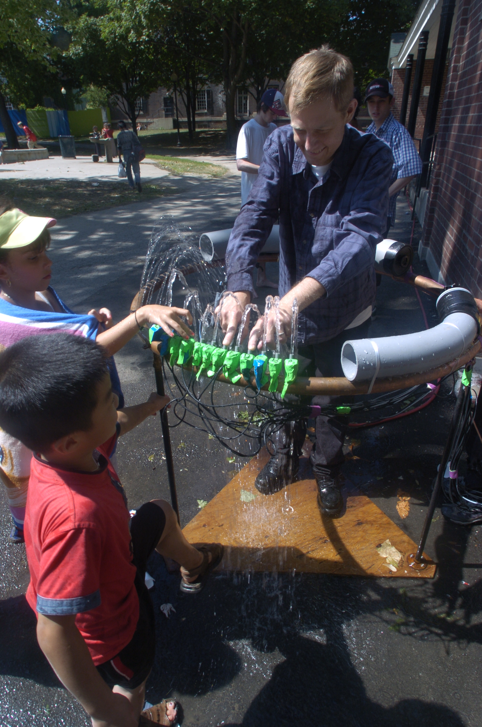 Here's a picture I took of fountaineer Jeff Chapman frolicking in a fountain that I built(a 12-jet hydraulophone with electric pickups). Picture was taken Sat. 2005 July 9th, 12noon to 4pm, in Grange Park, on a hot summer day when the wading pool was not operational.